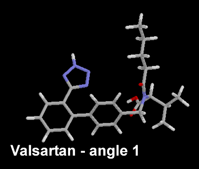 Created by Osni Moreira Filho on March 25, 2006.